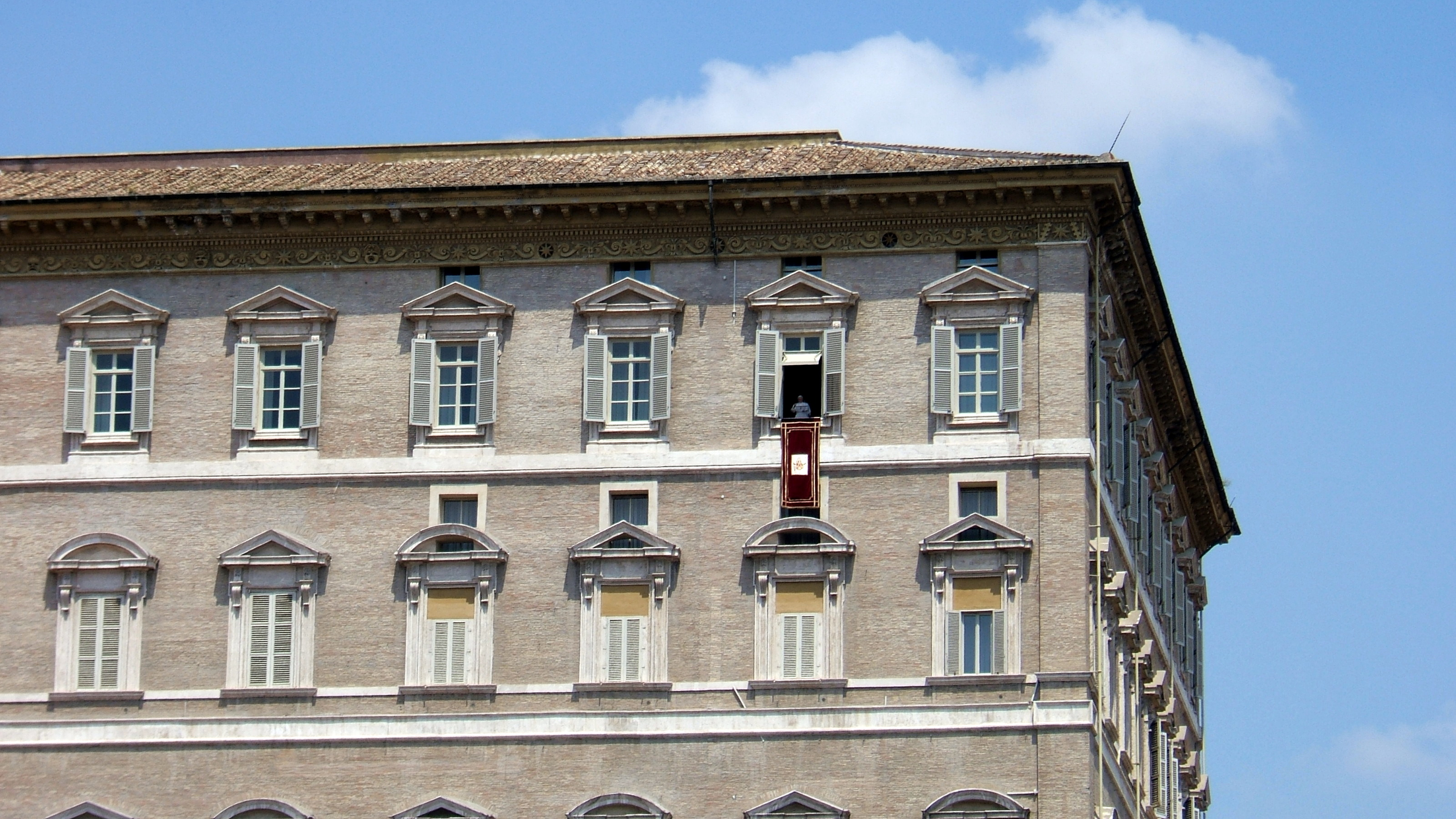 2007-06-10 in Rome